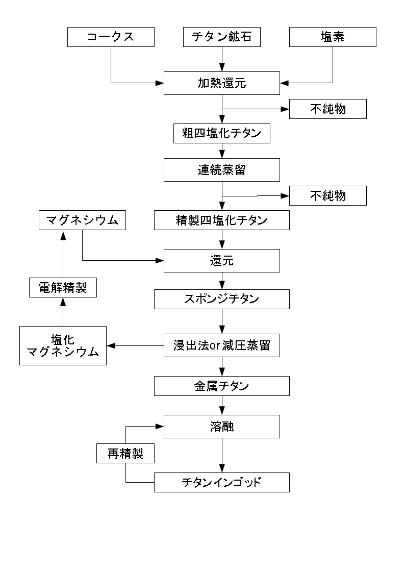 flow sheet of Kroll process